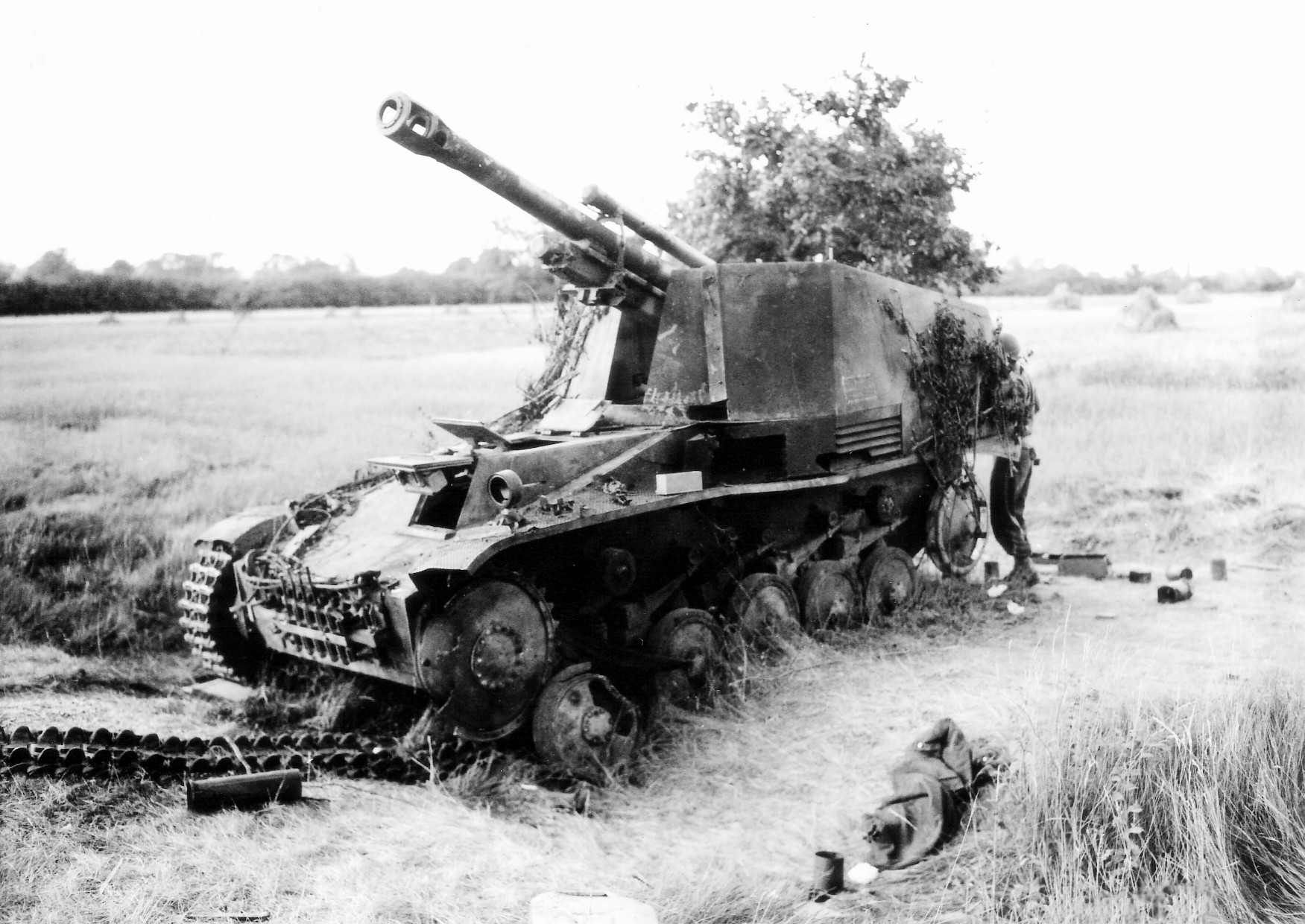 A destroyed German Sd.Kfz. 124 "Wespe" self-propelled gun carriage near Mortrée (Orne), France, circa in July 1944.